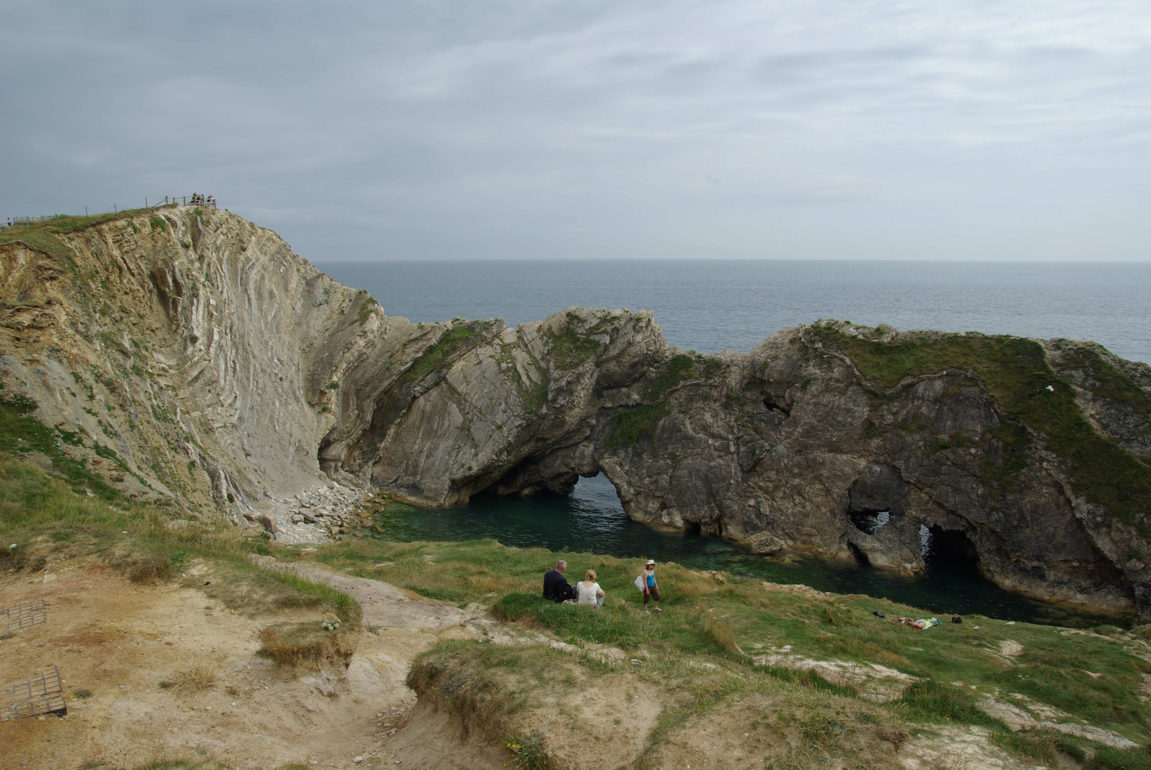 Stair Hole near Lulworth Cove